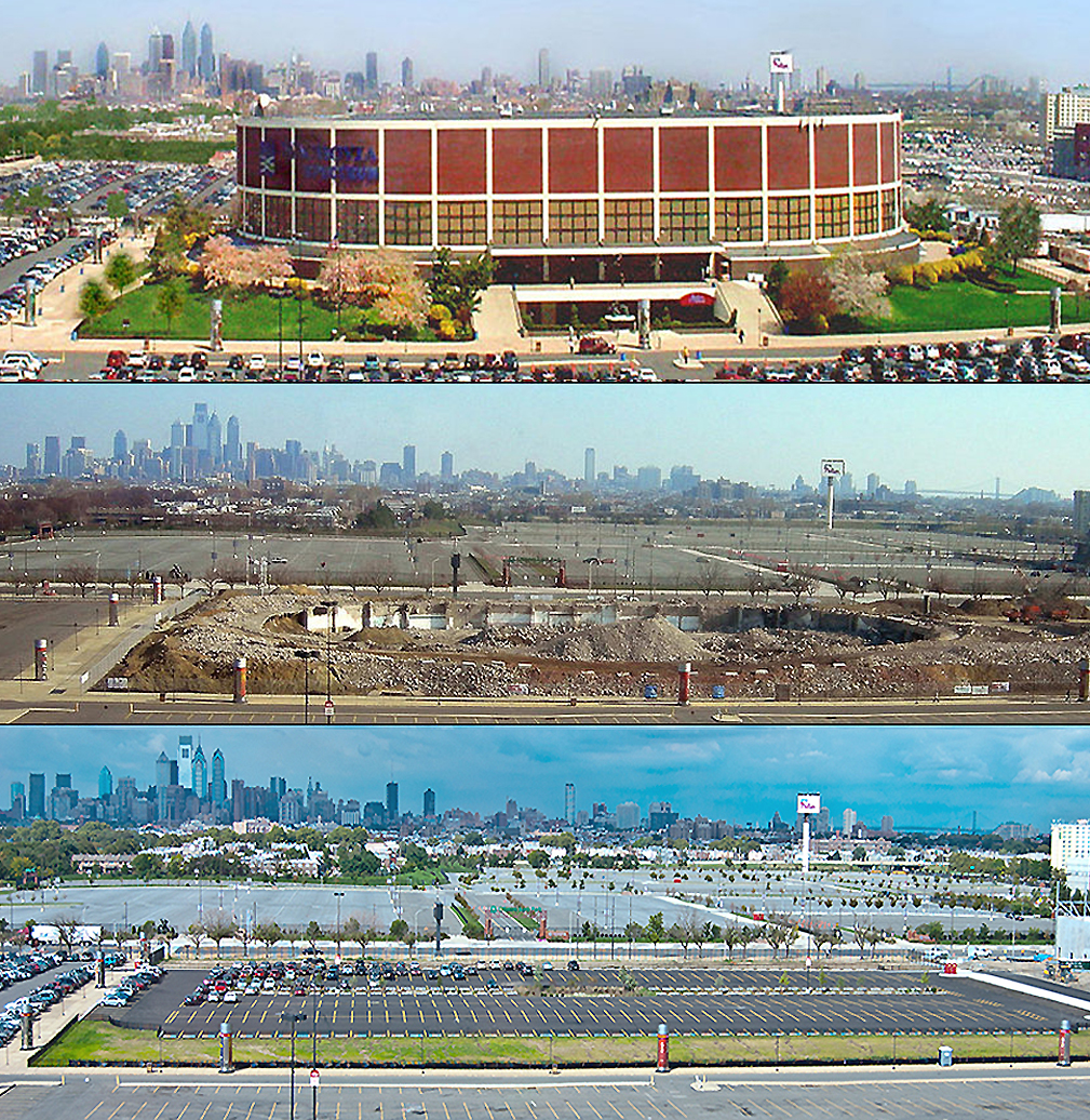 Composite "before, during and after" image of the Spectrum in Philadelphia, PA. The top images was taken in April 2004, five years before the arena was closed. The middle image was taken seven years later as its demolition was being completed in April, 2011. The white areas seen at ground level of the "after" image were the walls of the hockey and basketball lockerooms used by the Philadelphia Flyers (NHL), Philadelphia Phantoms (AHL), Philadelphia 76ers (NBA) and visiting teams. Citizens Bank Park, home of the Philadelphia Phillies, is seen to the right, the parking lot beyond the Spectrum was the former site of Veterans Stadium (demolished in 2004), and the Philadelphia skyline is in the distance. The bottom image is how the site appeared in Spetember 2011 after it had been converted to a parking lot. All three images were taken from the same location in the Wells Fargo Center, the arena that replaced the Spectrum. (Digital image created by the uploader thereof.)